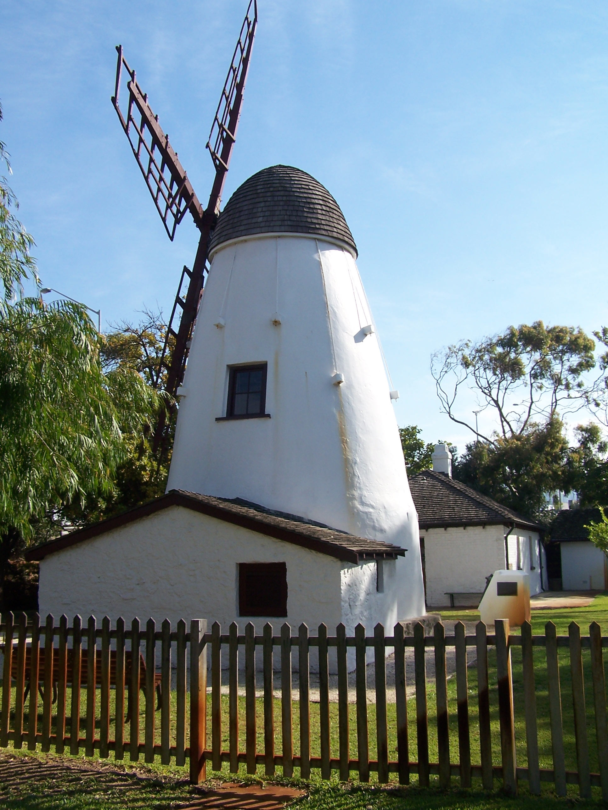 The Old Mill South Perth, Western Australia